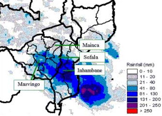 Japhet-induced rainfall from March 1 to March 4. The rainfall figures shown are based on satellite-derived estimates